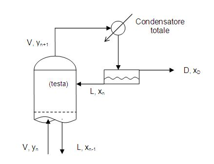 Head of a distillation column.